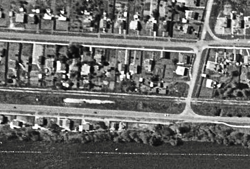 Station on NIMT in New Zealand closed in 1939